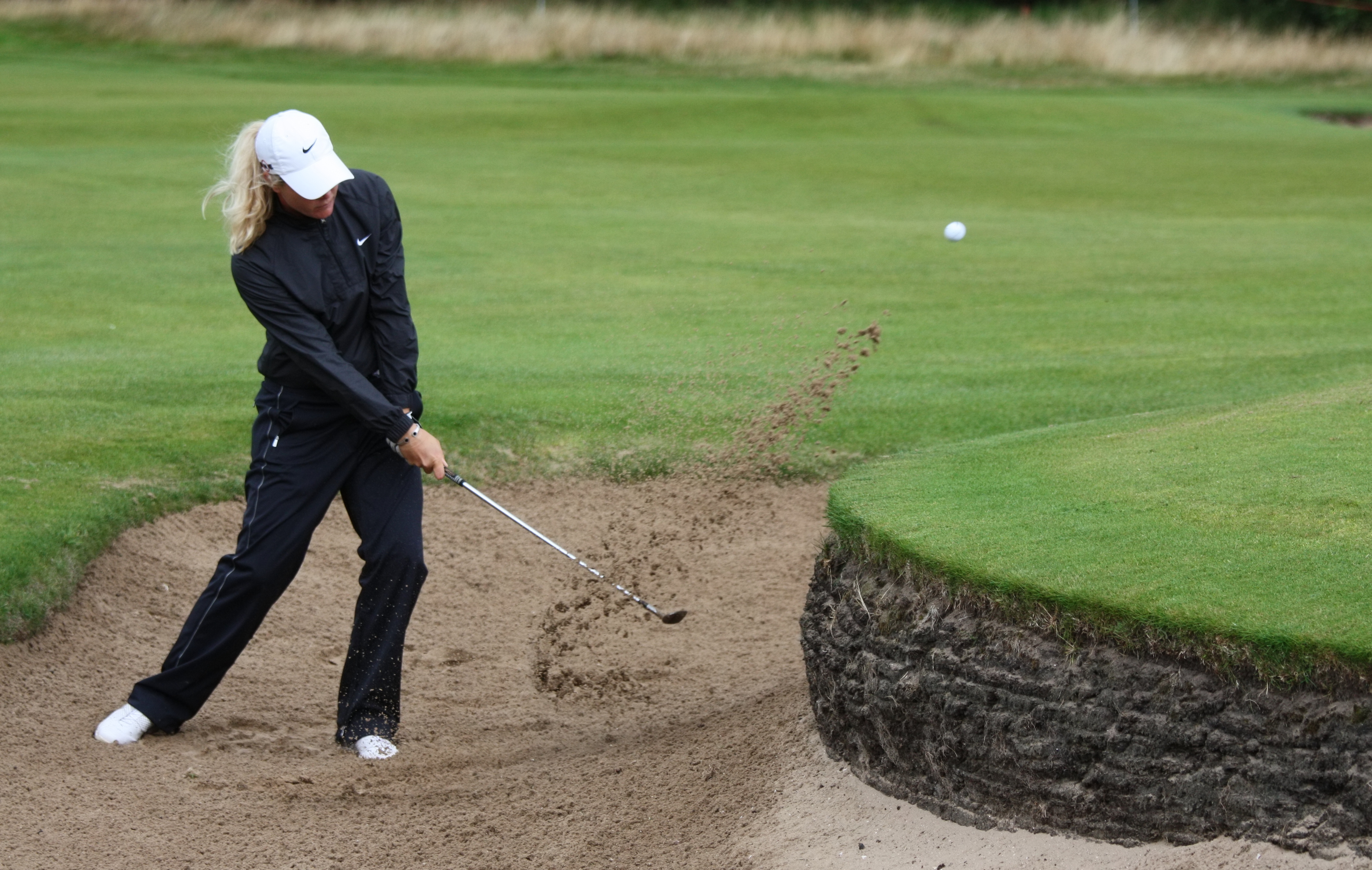 LYTHAM ST ANNES, UNITED KINGDOM - JULY 29: Suzann Pettersen of Norway hits out of the bunker next to the 11th green during third practice round before 2009 Ricoh Women's British Open held at Royal Lytham & St Annes on July 28, 2009 in Lytham St Annes, England. (Photo by Wojciech Migda)